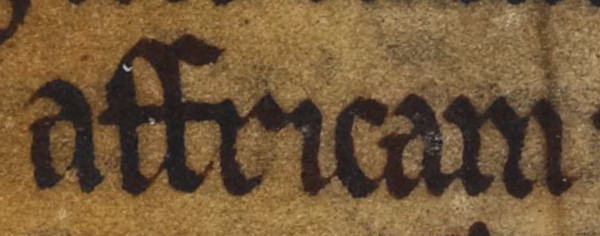 An excerpt from folio 35v of British Library MS Cotton Julius A VII (the Chronicle of Mann). The excerpt reads in Latin "Affricam". The excerpt refers to Affraic ingen Fergusa, wife of Óláfr Guðrøðarson, King of the Isles (died 1153).